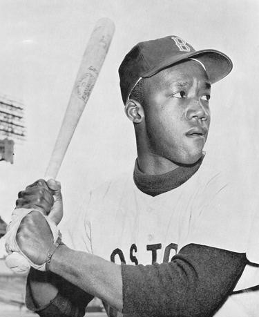 Professional baseball player Pumpsie Green